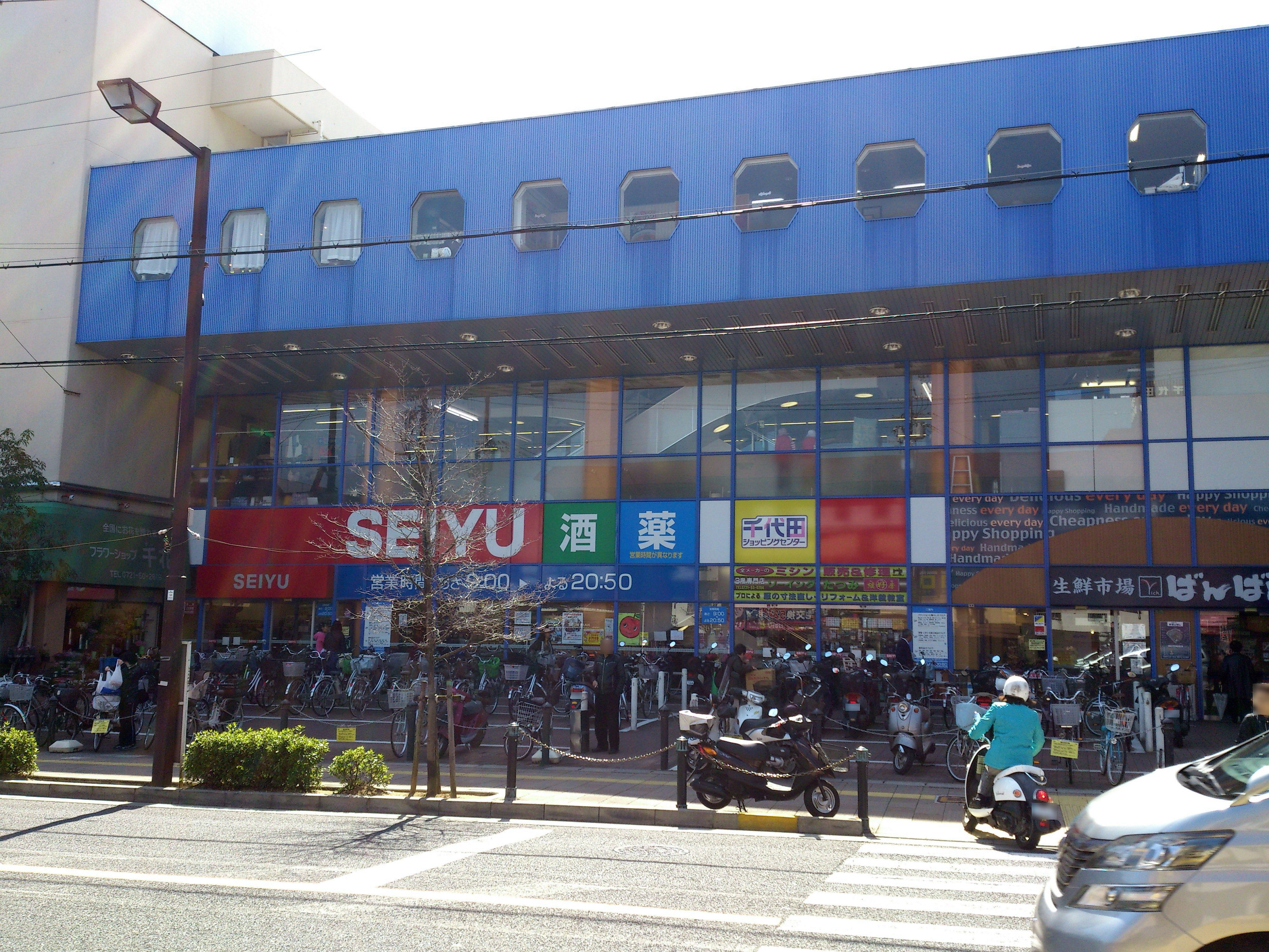 Chiyoda Shopping Center in Kawachinagano, Osaka